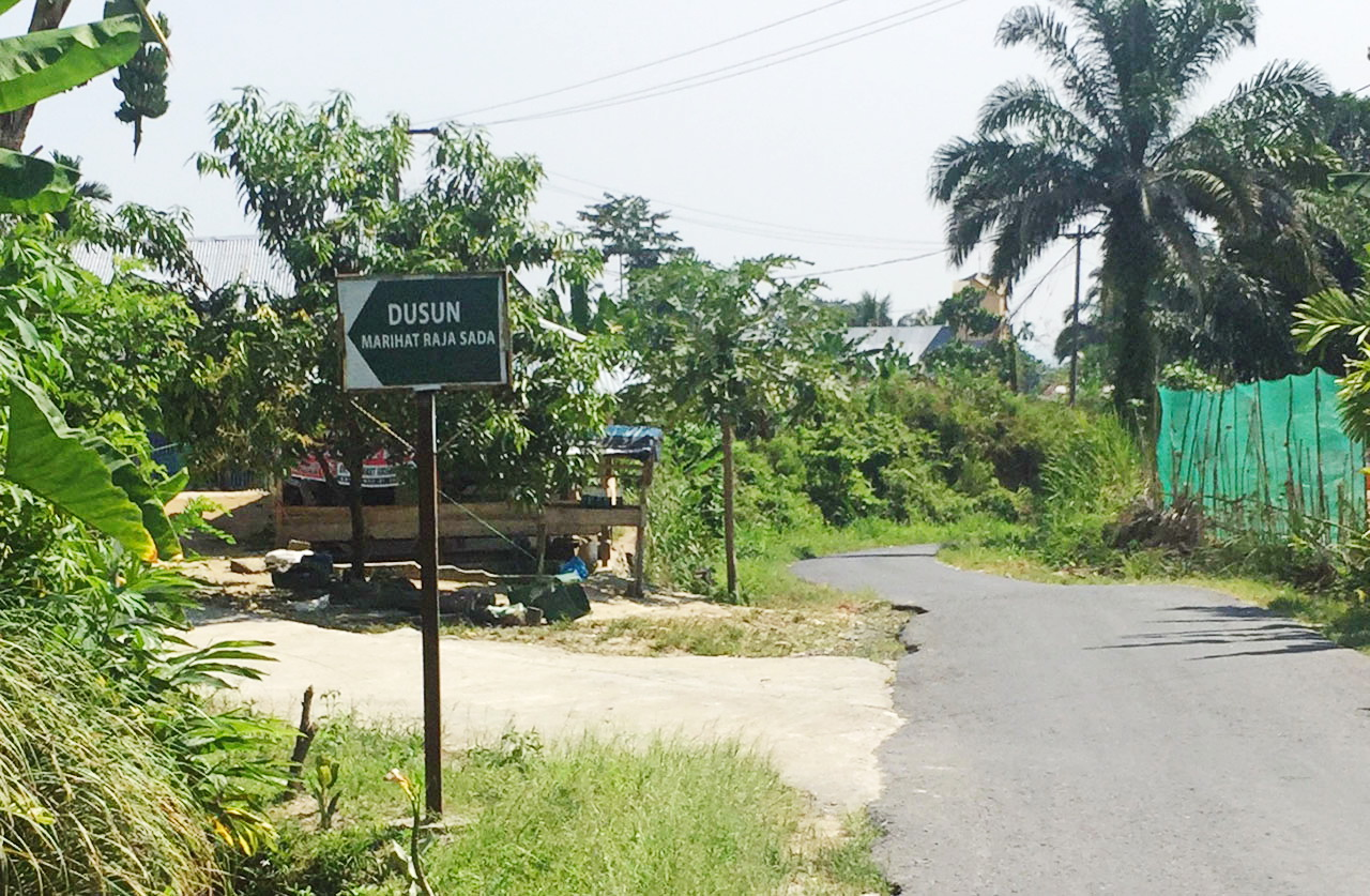 welcome gate to Marihat Marsada (Dusun Marihat Raja Sada), Dolok Panribuan, Simalungun